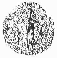 Seal City of Ommen 16th century